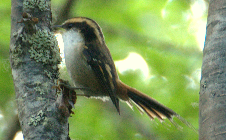 Thorn-tailed Rayadito Aphrastura spinicauda, Chile